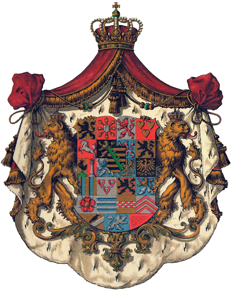 Coat of arms of the Duchy of Saxe-Coburg and Gotha.